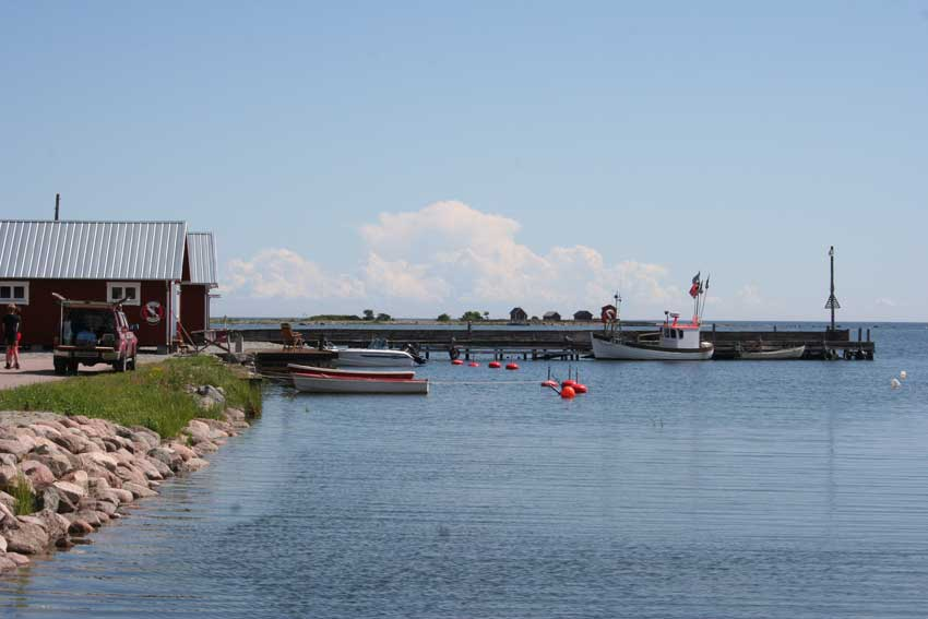 Harbour on Öland, Sweden